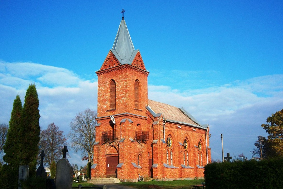 Ylakiai cemetery chapel, Skuodas District. Lithuania